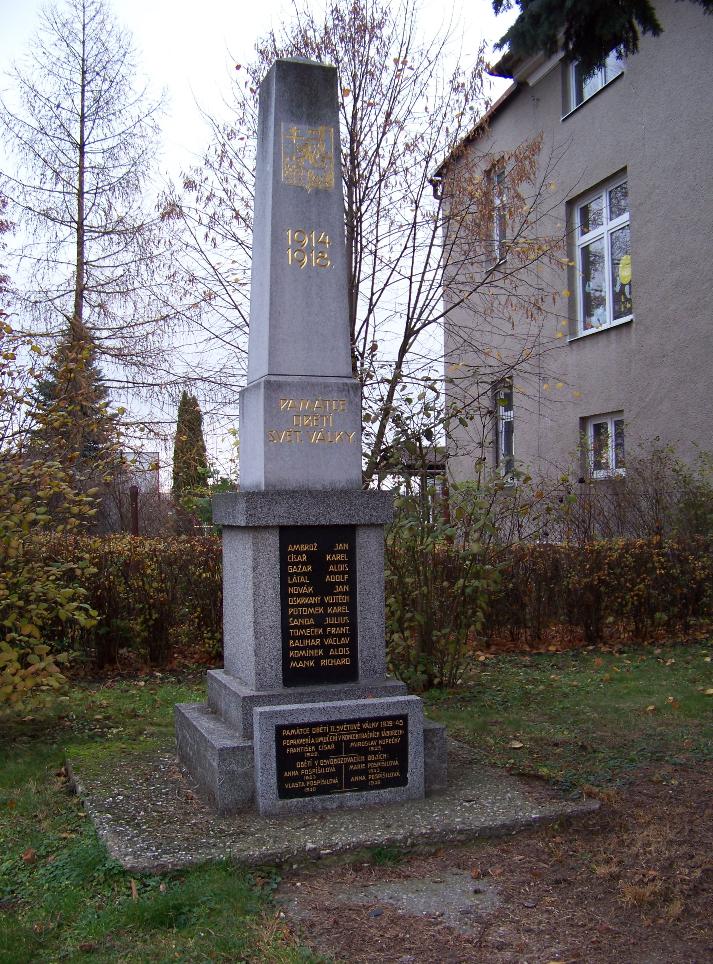 Olomouc-Týneček, Olomouc District, Olomouc Region, Czech Republic. Blodkovo náměstí, a world wars memorial near the school Blodkovo náměstí 27/15.